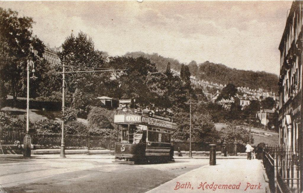 A tram of the Bath Electric Tramways Company passing Hedgemead park on its way from the city centre towards Bathford.